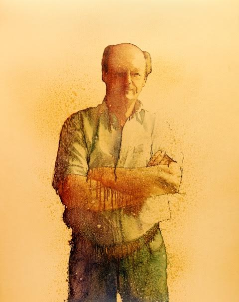 Odon Wagner, part of Mitic's 36 Portraits of Toronto's Arts Dealers